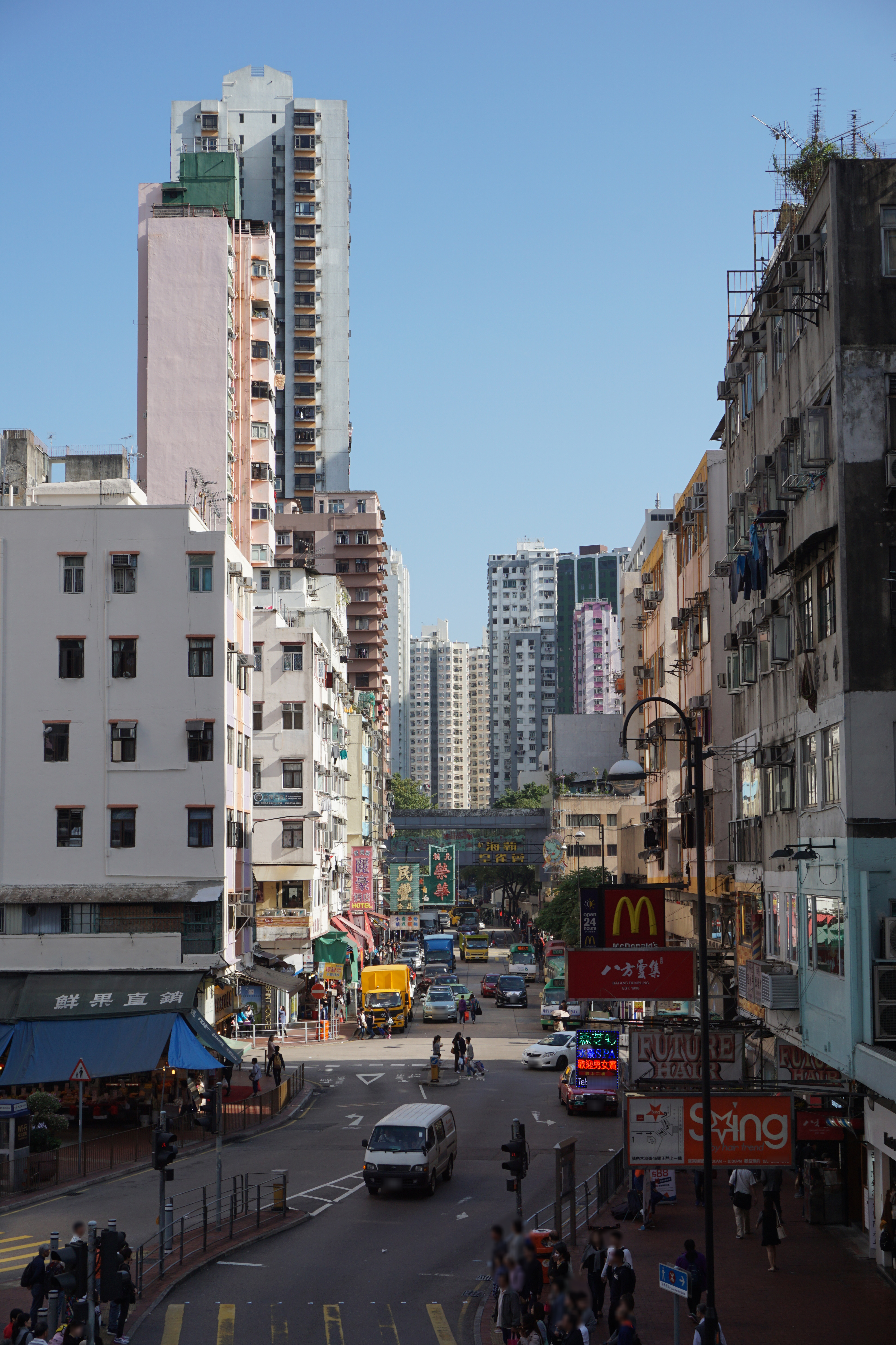 Market Street in Tsuen Wan, Hong Kong.